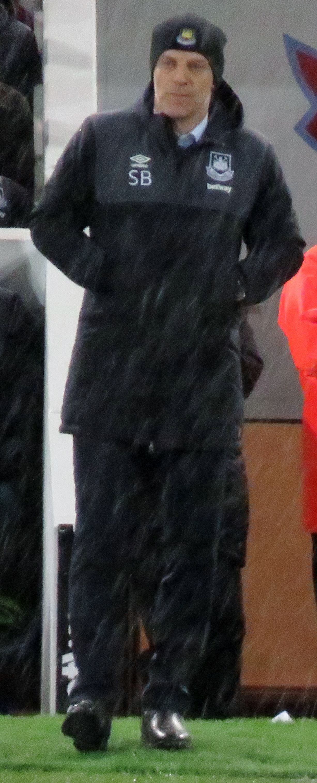 West Ham United manager Slaven Bilic during their Premier League defeat of Tottenham Hotspur at the Boleyn Ground, March 2016